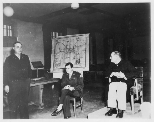 NORDHAUSEN CONCENTRATION CAMP CASE. / 7 August - 30 December 1947 / / A Defense witness, - Teply, testifying in connection with the Gardelegen Massacre, Chif Prosecutor Lt. Col. William Berman, and interpreter Velte. This man marched the prisoners to the barn.